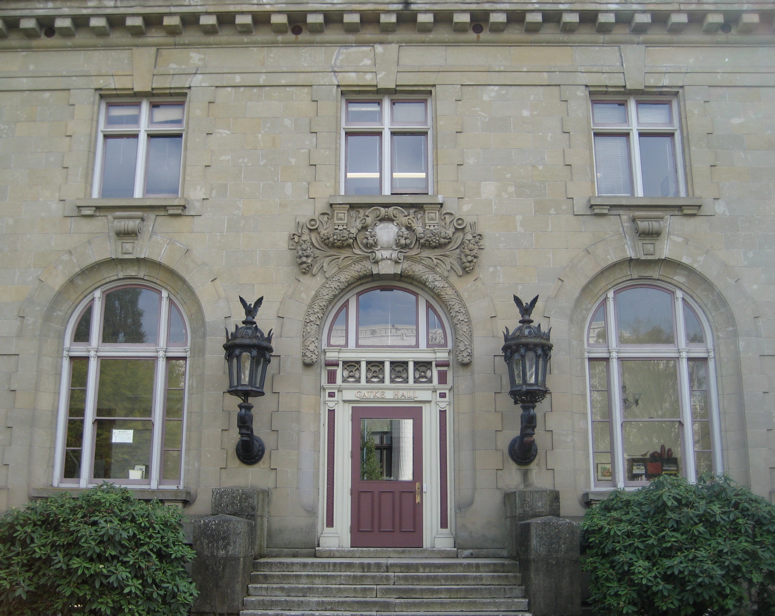 The front of Gatke Hall at Willamette University in Salem, Oregon, USA.